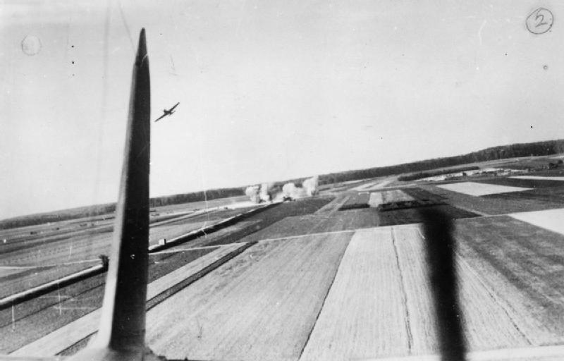 Royal Air Force- France, 1939-1940. Fairey Battles bombing a German horse-drawn convoy near Dunkirk. Photograph taken from the rear gunner's position in a Battle as it cleared the target area.